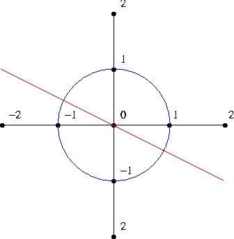 a circle intersecting a line. Created by me with xfig.